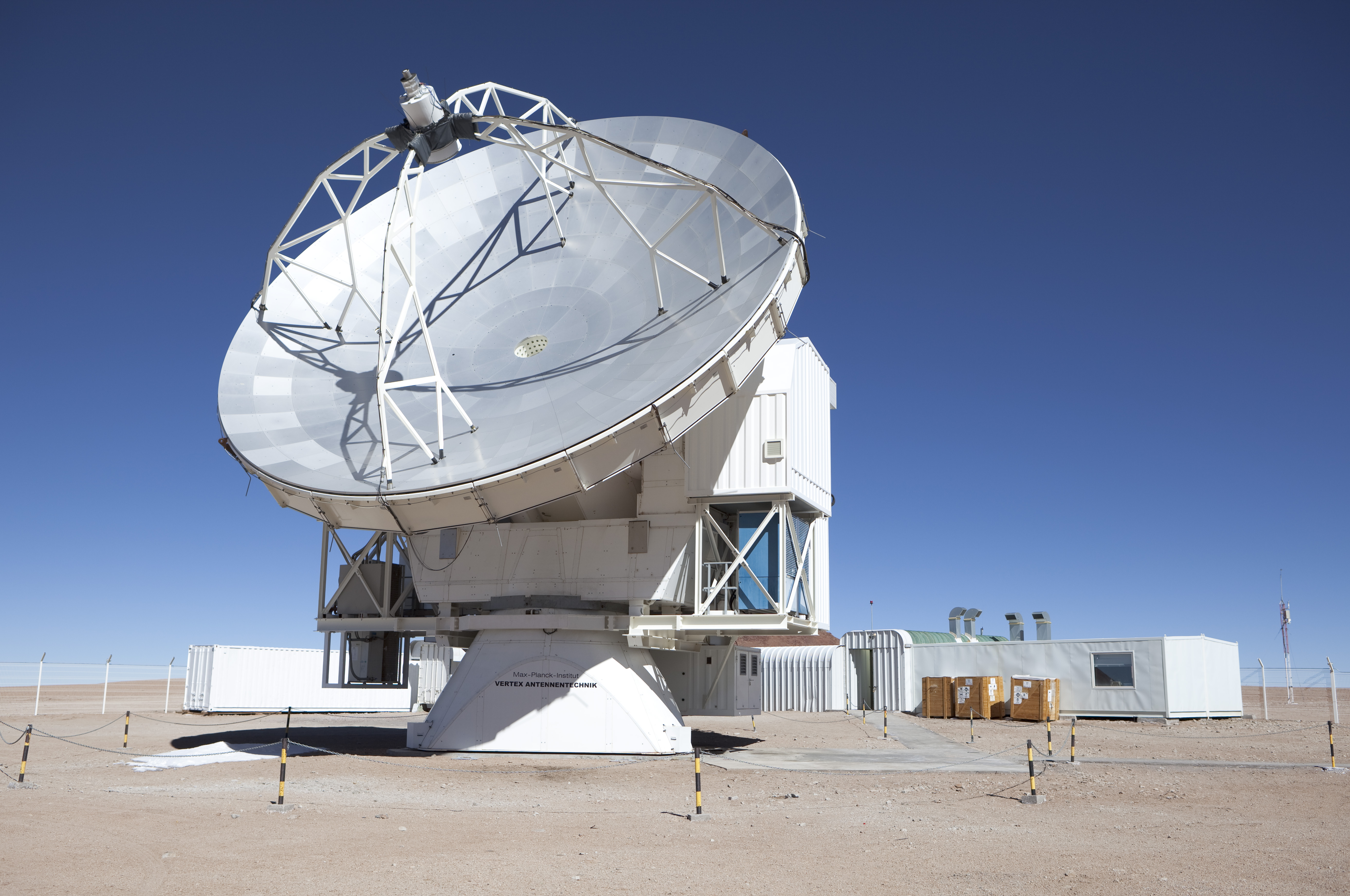 The APEX antenna. APEX, the Atacama Pathfinder Experiment, is a collaboration between Max Planck Institut für Radioastronomie (MPIfR), Onsala Space Observatory (OSO), and the European Southern Observatory (ESO) at to construct and operate a modified ALMA prototype antenna as a single dish on the high altitude site of Llano Chajnantor in Chile. Observing with APEX will allow for the study of warm and cold dust in starforming regions both in the Milky Way and in distant galaxies in the young universe. Issues like the vast scales of the structure of the Universe down to the physics and chemistry of comets will be addressed. This image was obtained in March 2009.